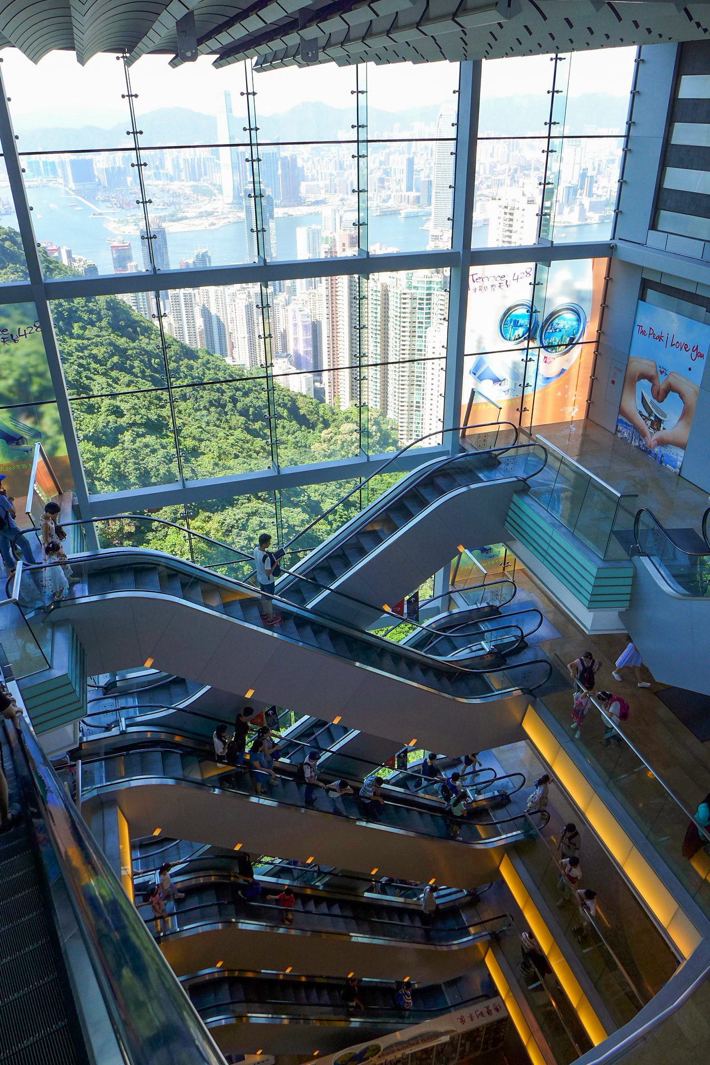 The Peak Tower Void View